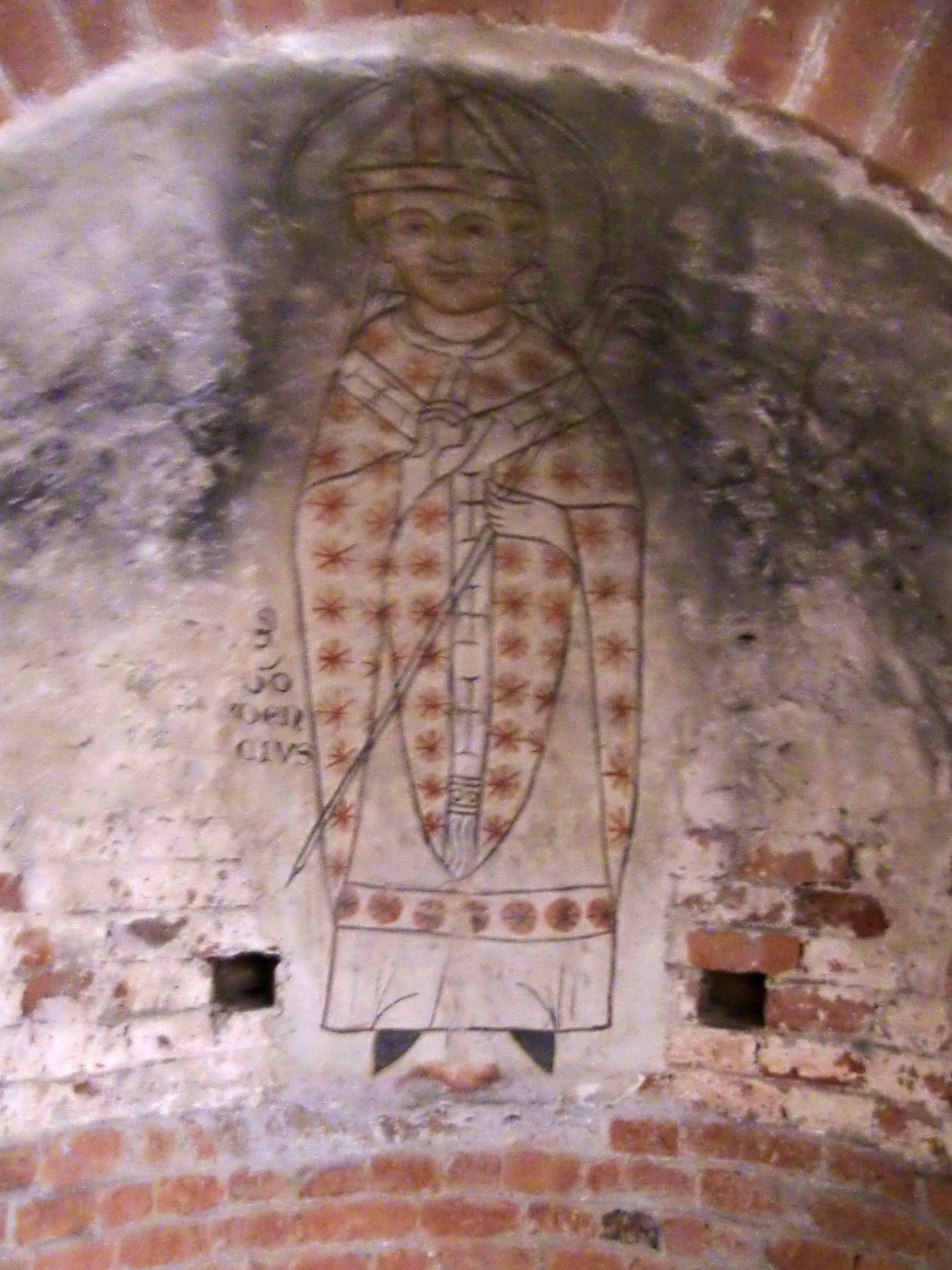 Ivrea, Cathedral, Crypt, fresco depicting San Gaudenzio